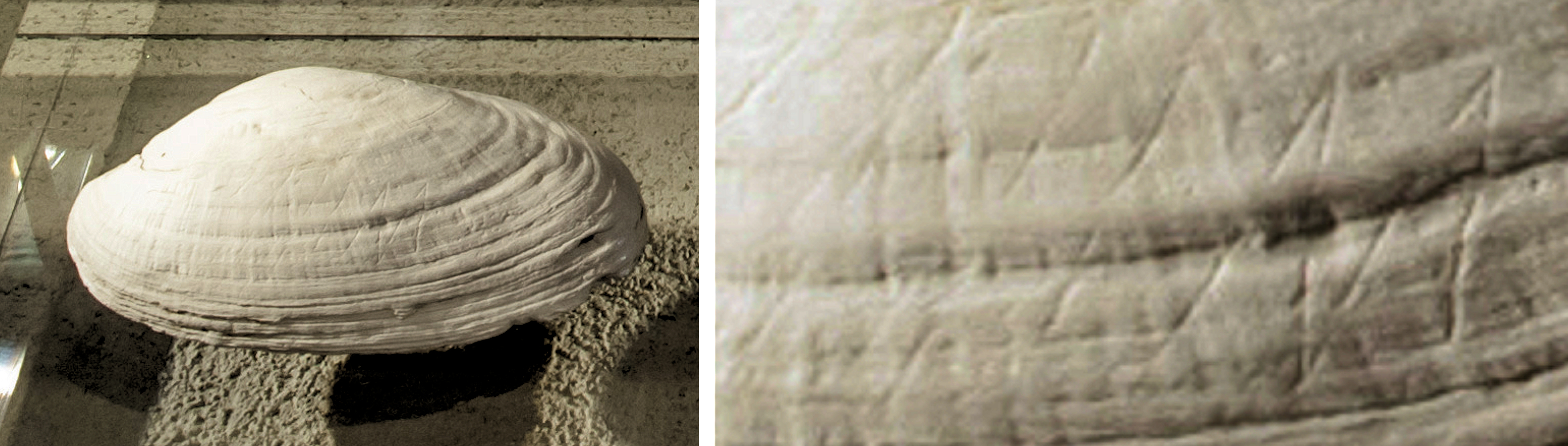 Shell with "geometric" incisions, claimed to date from circa 500,000 BP, Naturalis Biodiversity Center, Netherlands (with detail)